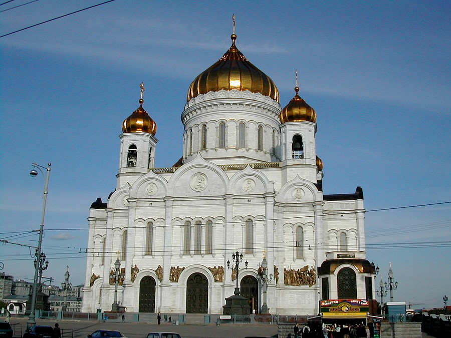 Cathedral of the Christ the Saviour in Moscow. June 10, 2003.